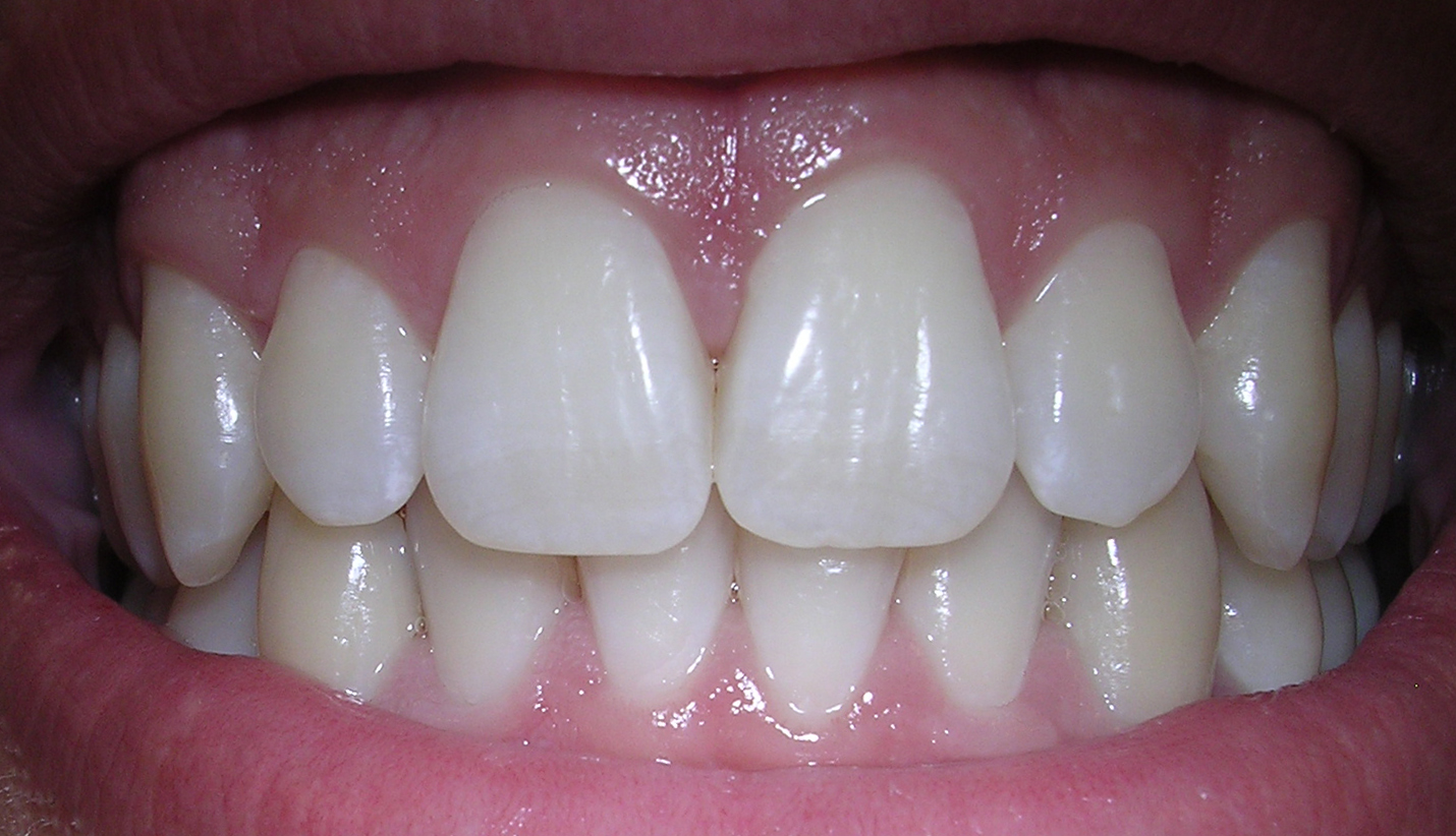 Photo of teeth.